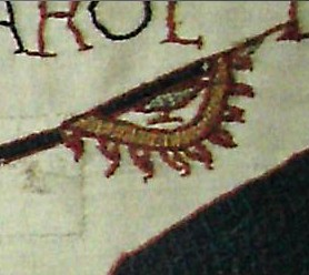 Raven banner detail from the Bayeux tapestry